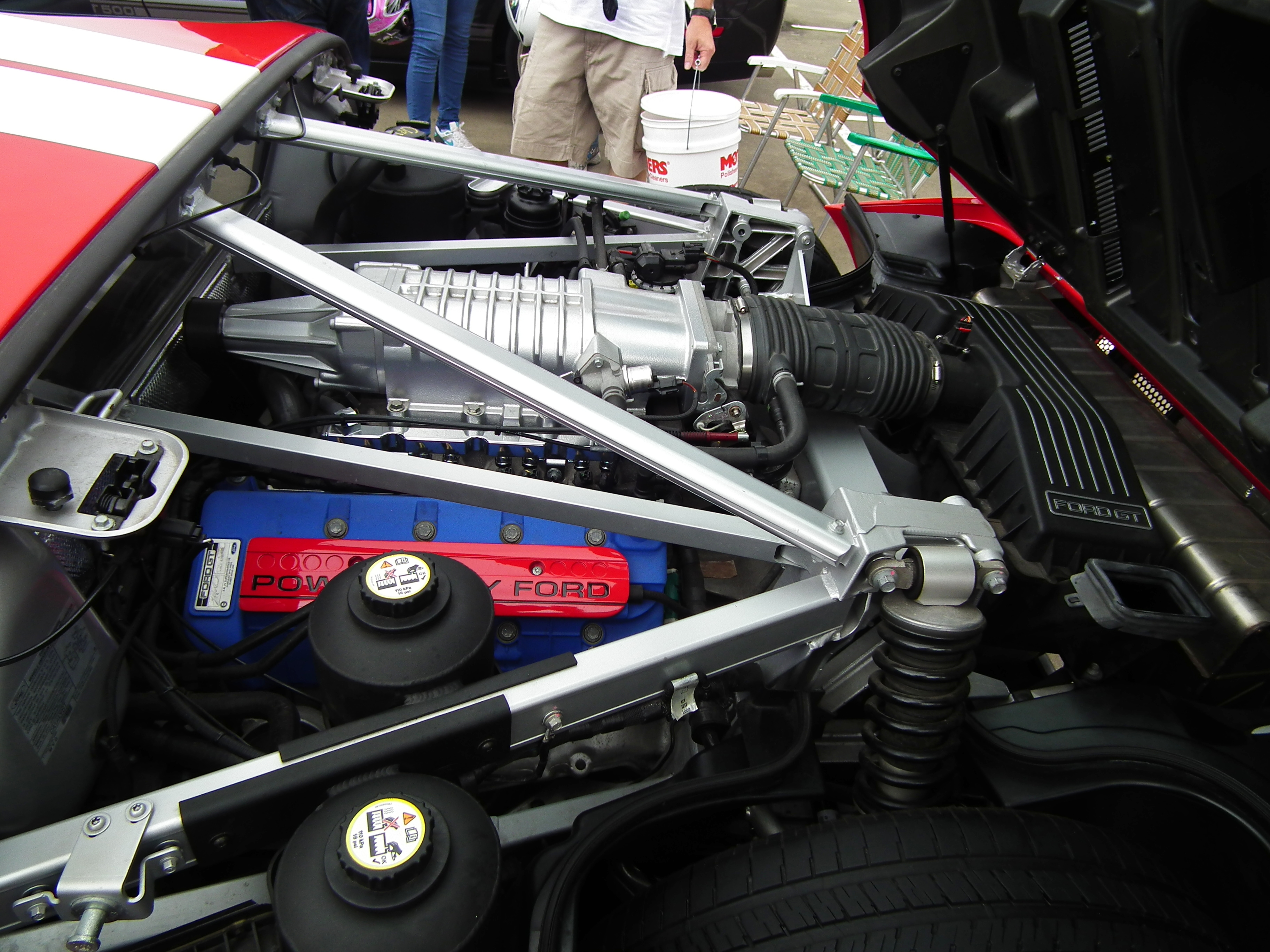 2005 Ford GT coupe engine. Taken at the 2013 New South Wales All American Day, held at Castle Towers Shopping Centre, Castle Hill, Sydney.